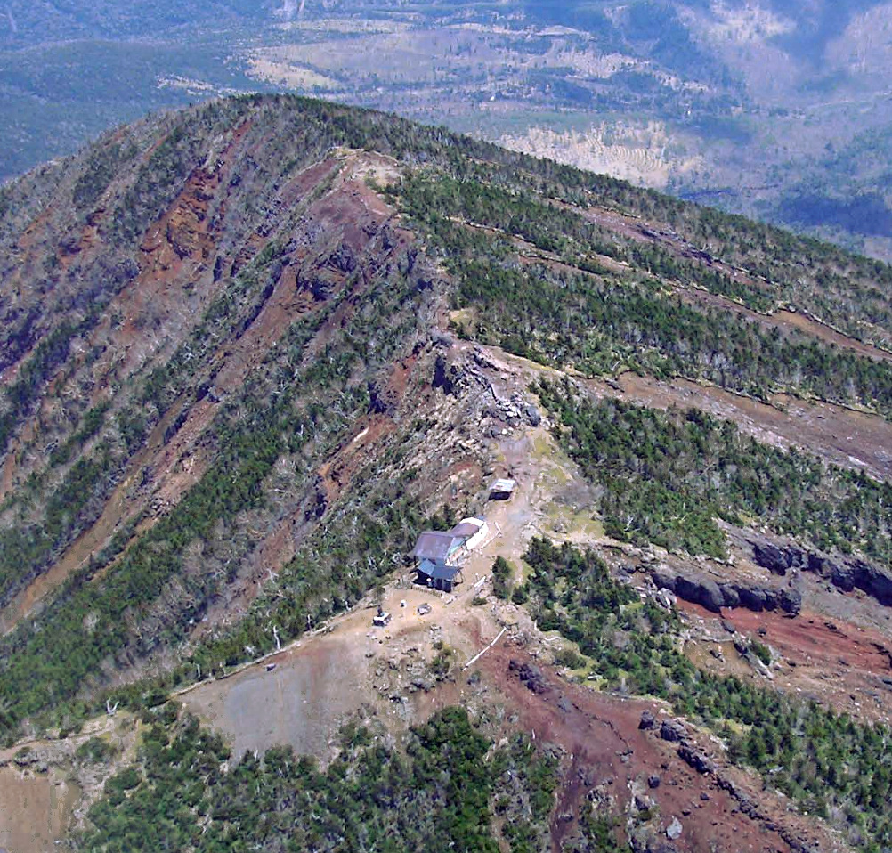 Japan: aerial view of the summit of mount Nantai in Nikkō city (Tochigi prefecture).